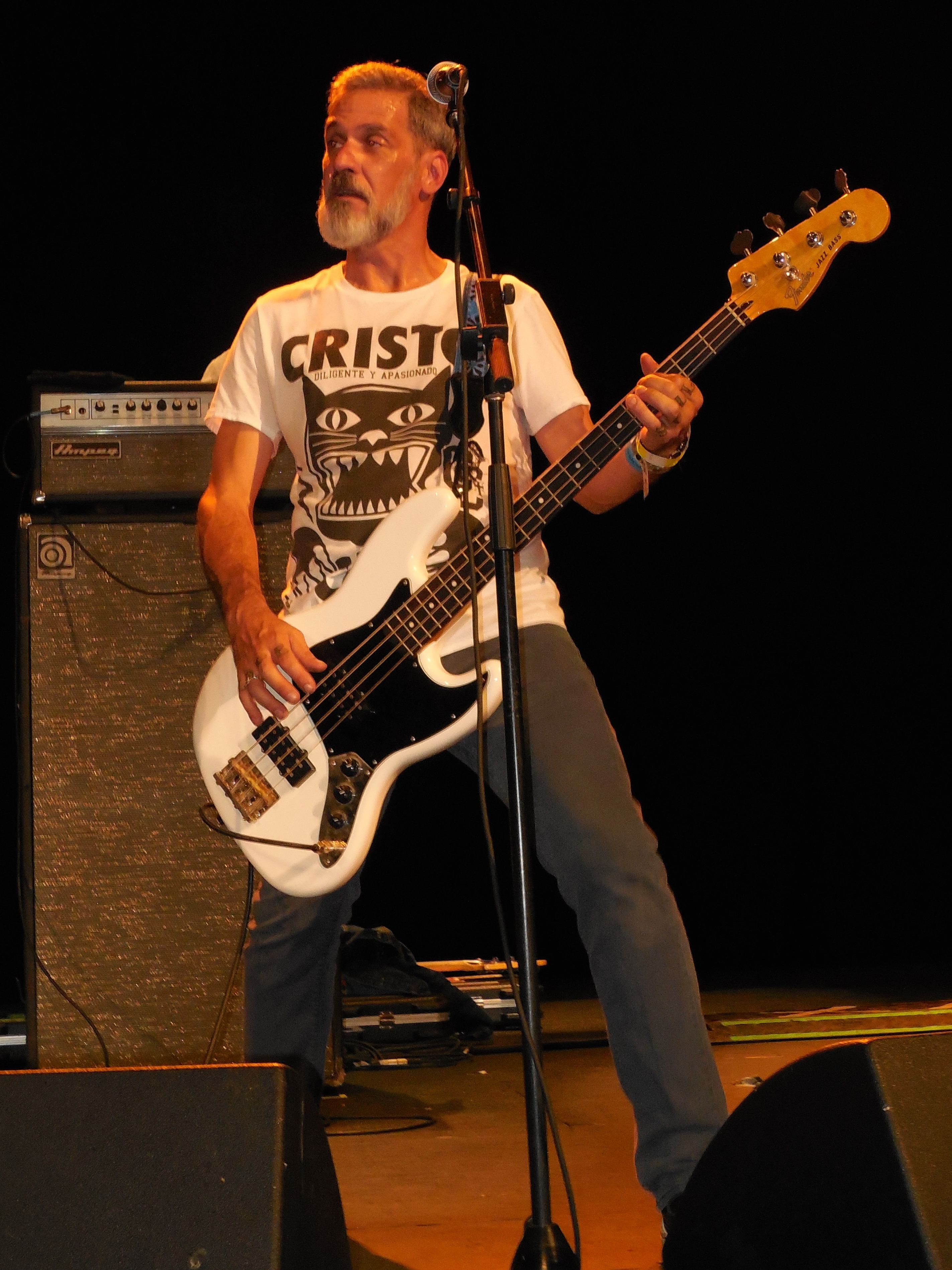 Bassist Karl Alvarez of the Descendents performing at the Fox Theater in Pomona, California on September 28, 2014.